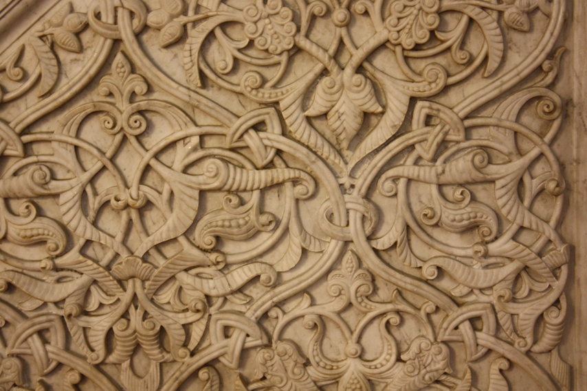 Stone relief inside the Umayyad Mosque — Damascus. The interior of the mosque is mainly white although it contains some fragmentary mosaics and other stone and plaster geometric patterns. Damascus is believed to be one of the oldest continuously inhabited cities in the world and the Umayyad Mosque stands on a site that has been considered sacred ground for at least 3,000 years. The Umayyad Mosque, also known as the Grand Mosque of Damascus, is one of the largest and oldest mosques in the world, being completed in 715 AD. The spot where the mosque now stands was a temple of Hadad in the Aramean era. The site was later a temple of Jupiter in the Roman era, then a Christian church dedicated to John the Baptist in the Byzantine era, before finally becoming a mosque.